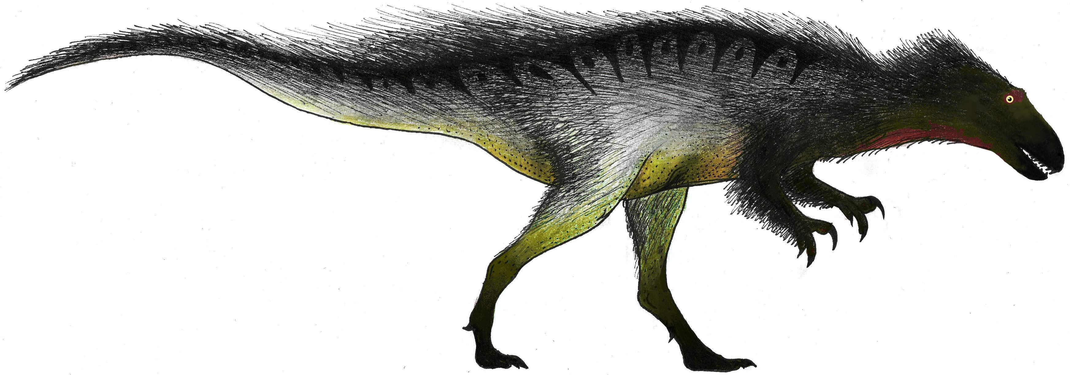 Orkoraptor life restoration